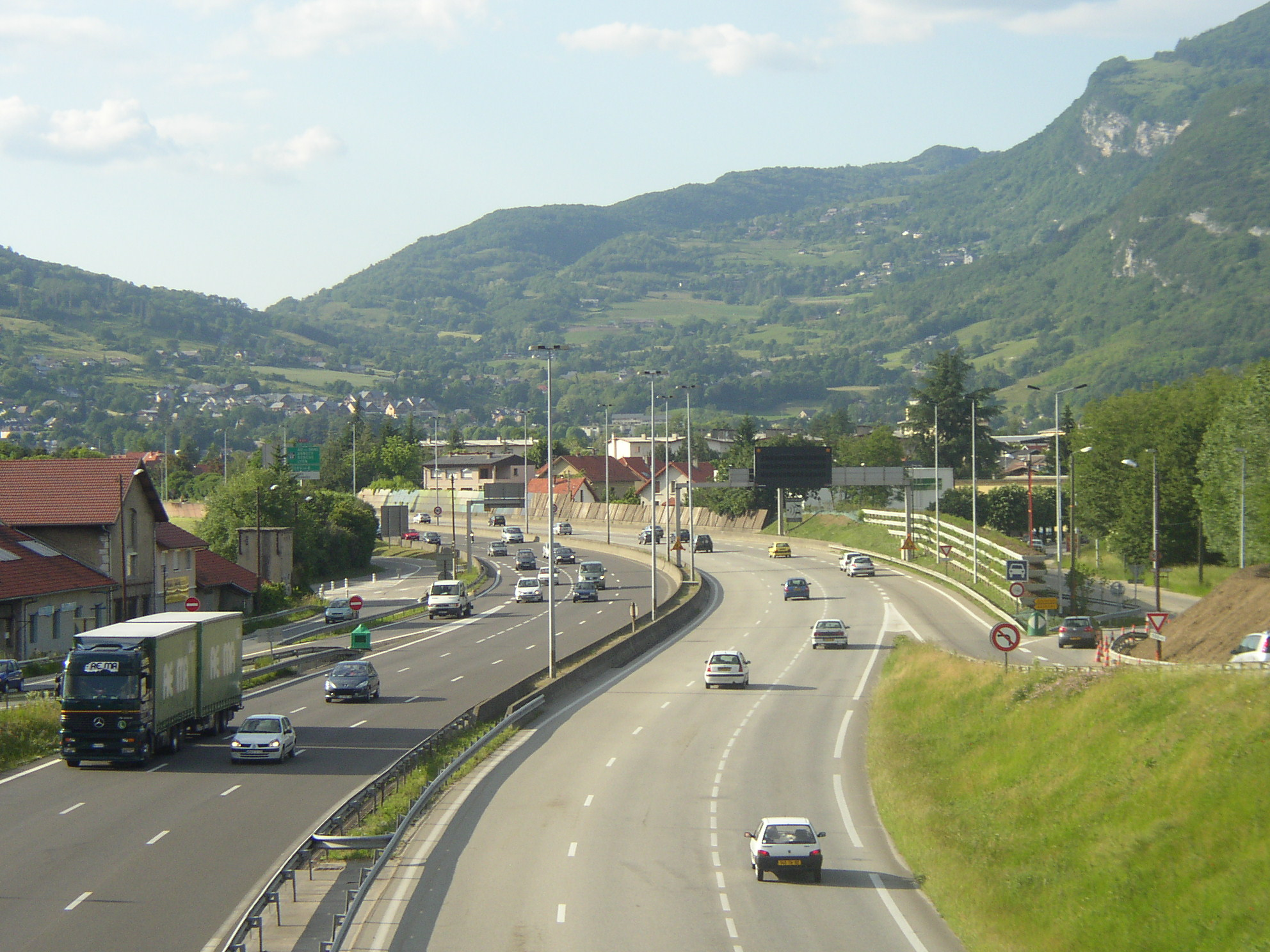 Sight of the French motorway crossing the city of Chambéry in Savoie, from the exit for La Ravoire, in June 2006.